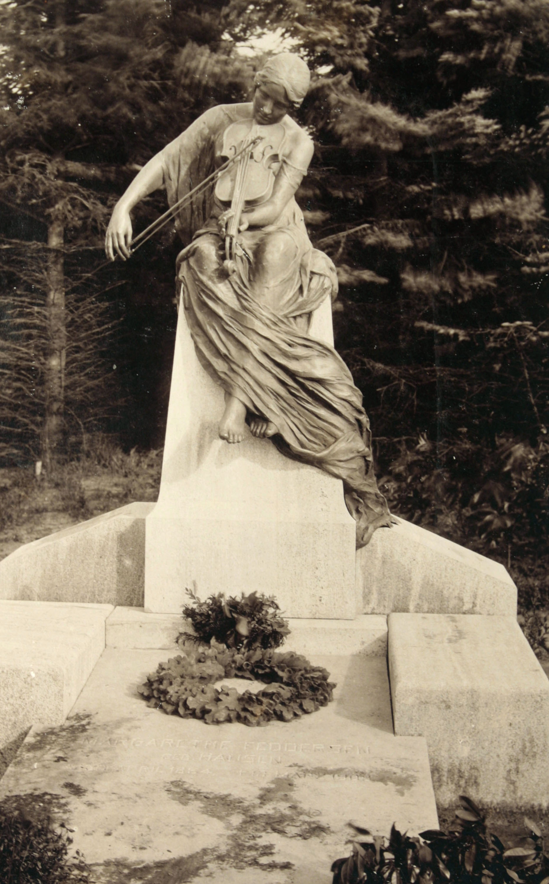 The statue depicted in this photograph was part of a structure marking the grave of the Feddersen family in Galmsbüll (near Niebüll in Schleswig-Holstein) It was created in 1909 by Gregor Von Bochmann (1878-1914) but unfortunately sometime around the end of the second world war it disappeared. Often at that time period statues such as this were stolen and melted down for its precious metal. One can only speculate. Gregor von Bochmann was the son in law of the well known painter Hans Peter Feddersen.